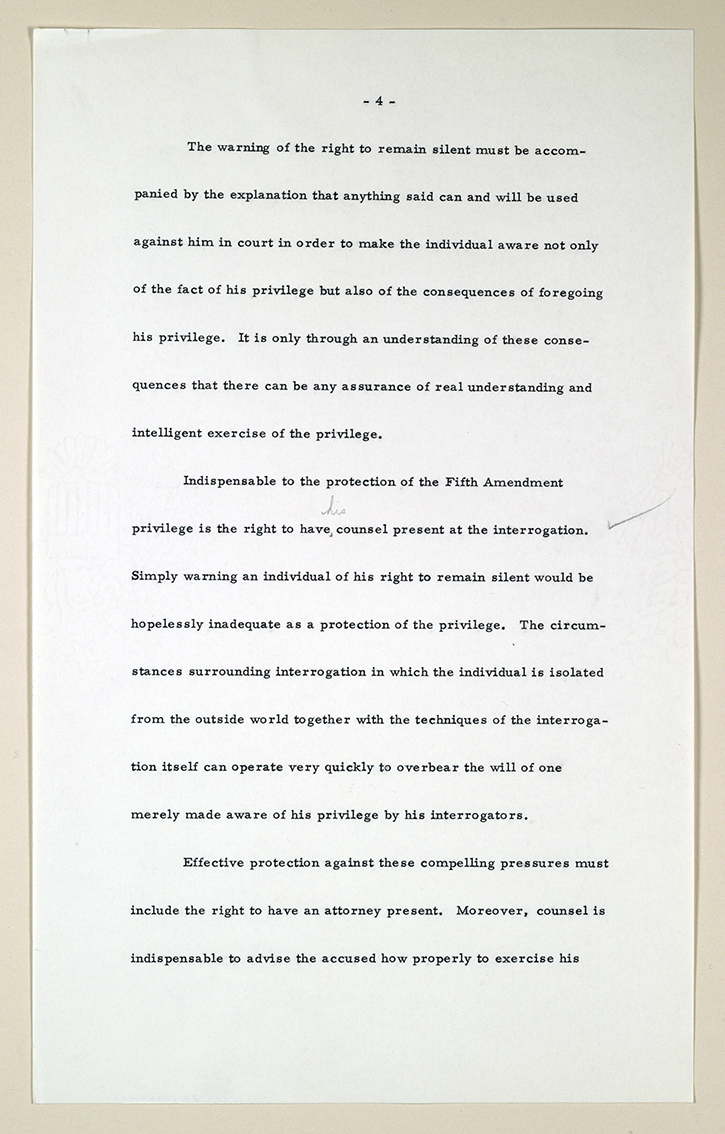 Page of the manuscript written by Chief Justice Earl Warren regarding the Miranda v. Arizona case. Description via Library of Congress: "Chief Justice Earl Warren (1891–1974) wrote the majority opinion in the case of Ernesto Arturo Miranda against the state of Arizona, decided on June 13, 1966, and which was one of a group of four similar cases. The majority decision established that before a defendant’s statement to police could be admitted as evidence, the prosecution had to prove that the defendant was informed of his right to counsel and against self-incrimination, now referred to as “Miranda Rights.”"